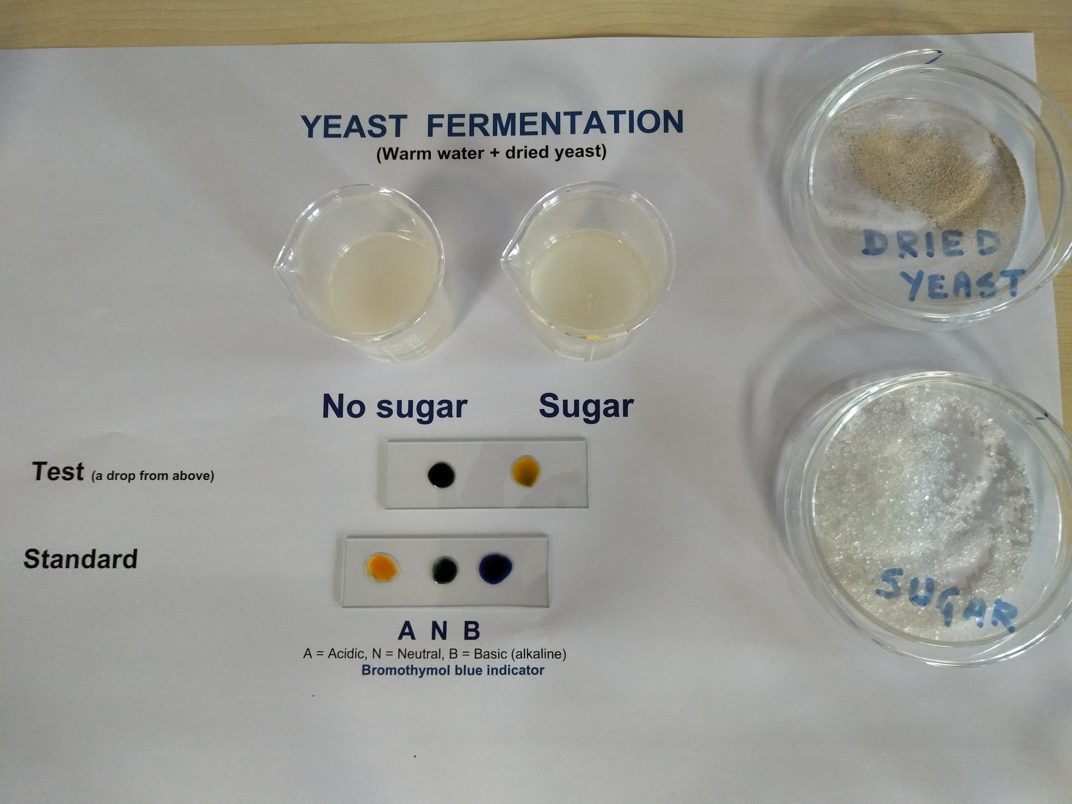 Fermentation of sucrose by yeast. When dried yeast is hydrated in warm water in presence of sucrose (sugar), it produces acid, alcohol and other organic molecules. During the initial period of growth of the yeast, the dissolved oxygen is depleted rapidly with the evolution of carbon-dioxide (observable as bubbles). The respiration then shifts to anaerobic mode, resulting in formation of ethanol as well as organic acids. The picture shows formation of acid by yeast after 10 minutes of incubation in warm water in presence of sucrose. Bromothymol blue indicator turns yellow in presence of acid.